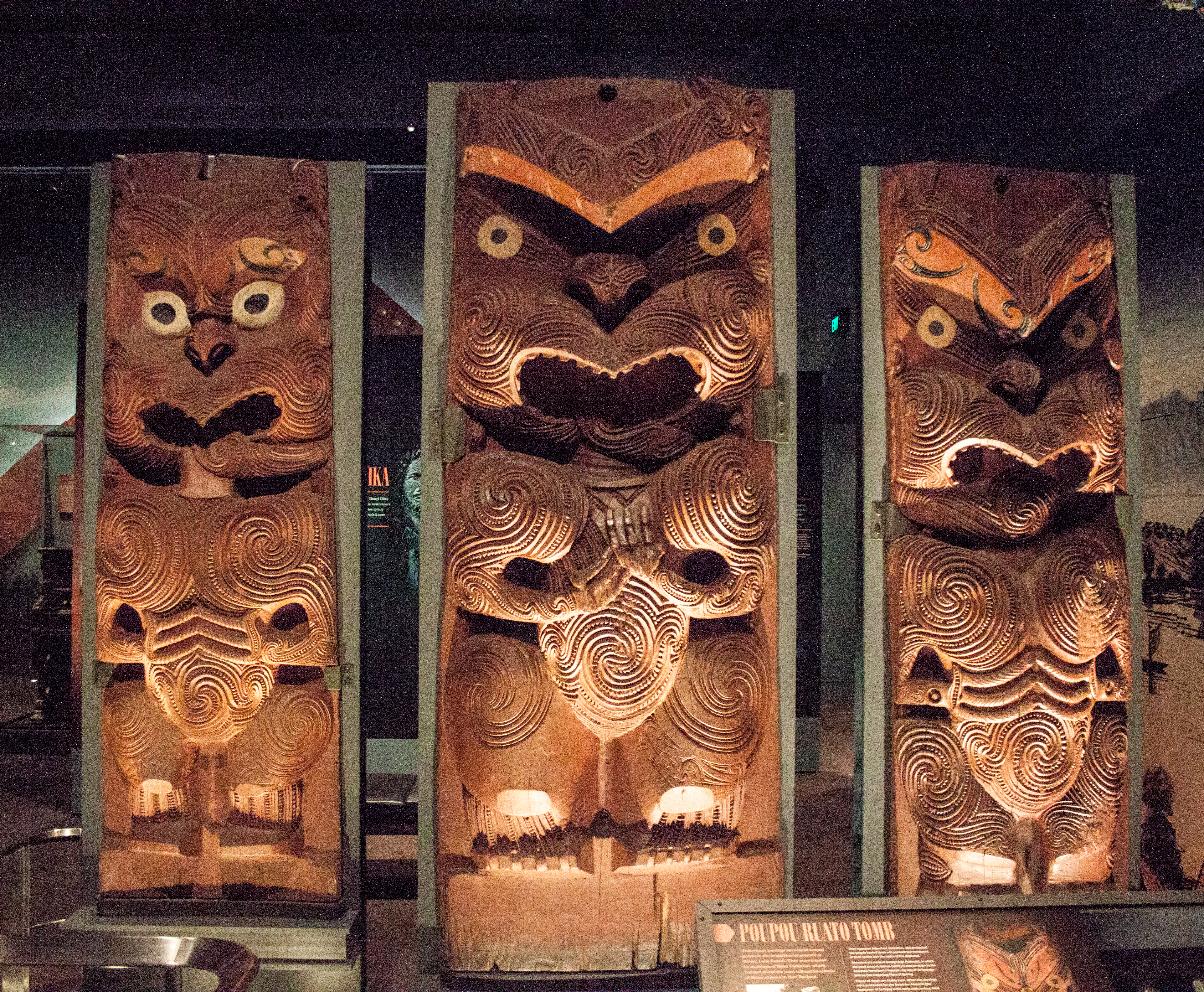 Maori wood carvings in the Rotorua Museum